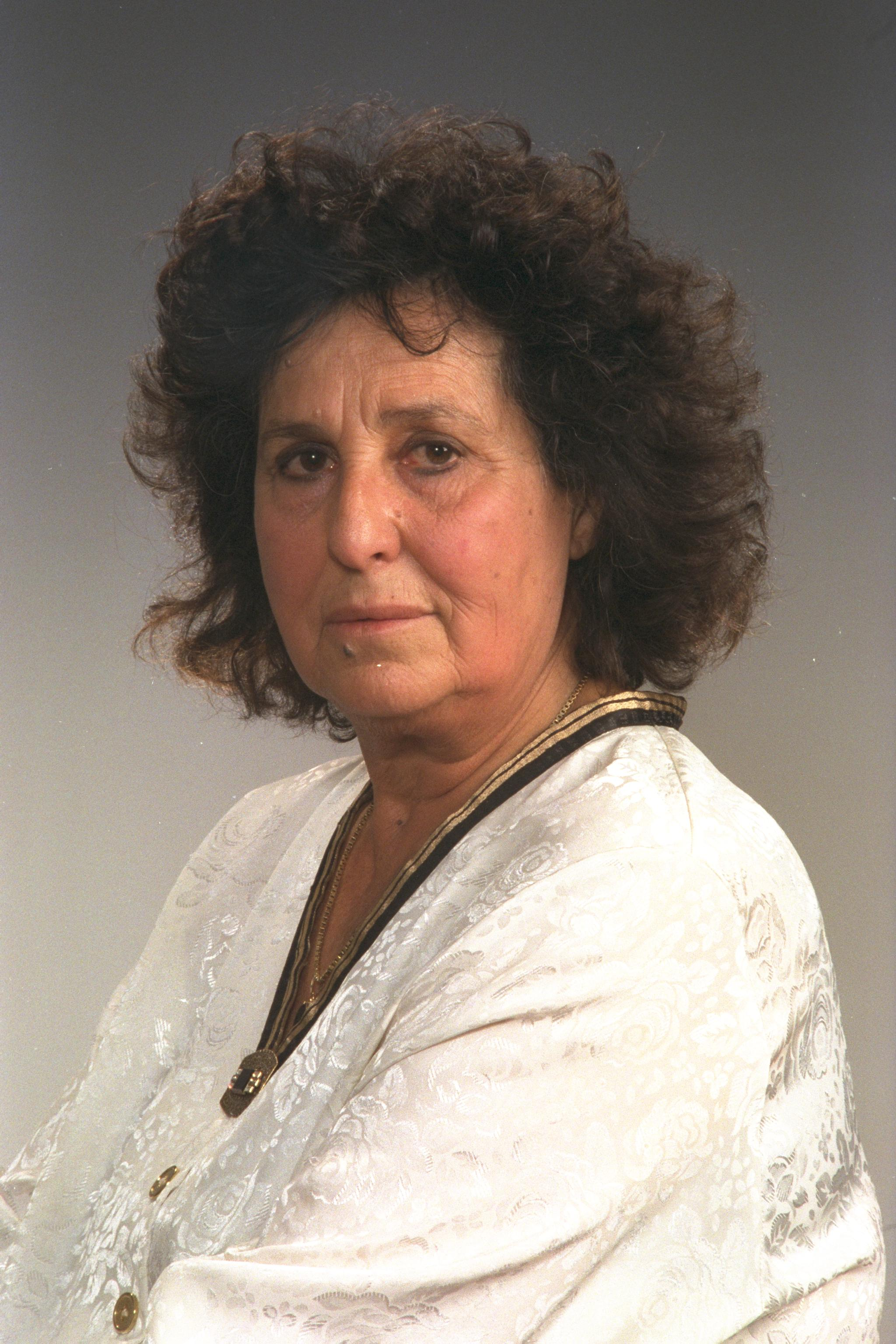 Portrait of Tehiya m.k. Geula Cohen.